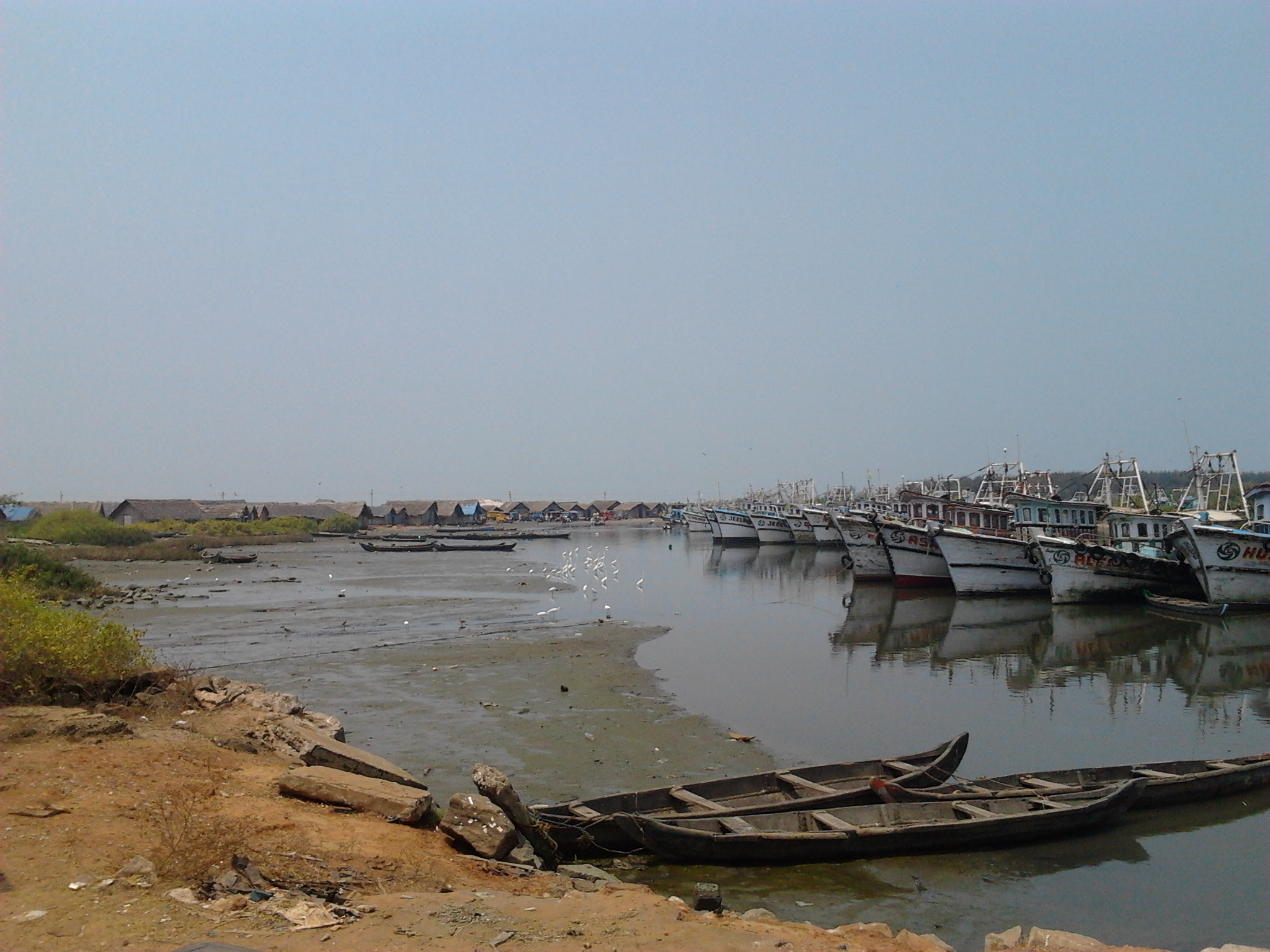 Ponnani Fishing Harbour